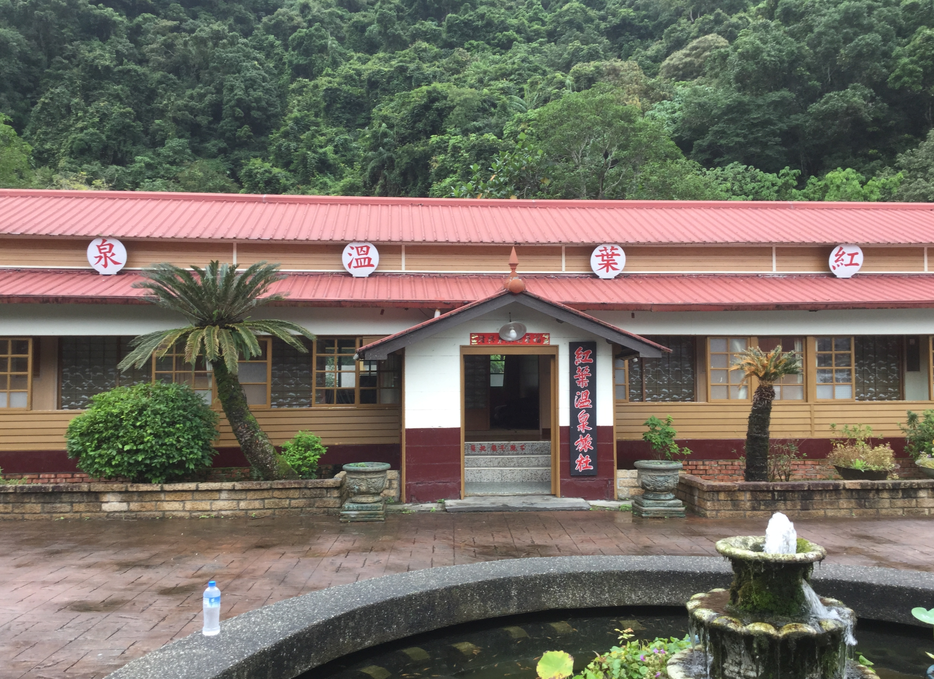 Hongye Hot Spring, Hualien County, Taiwan